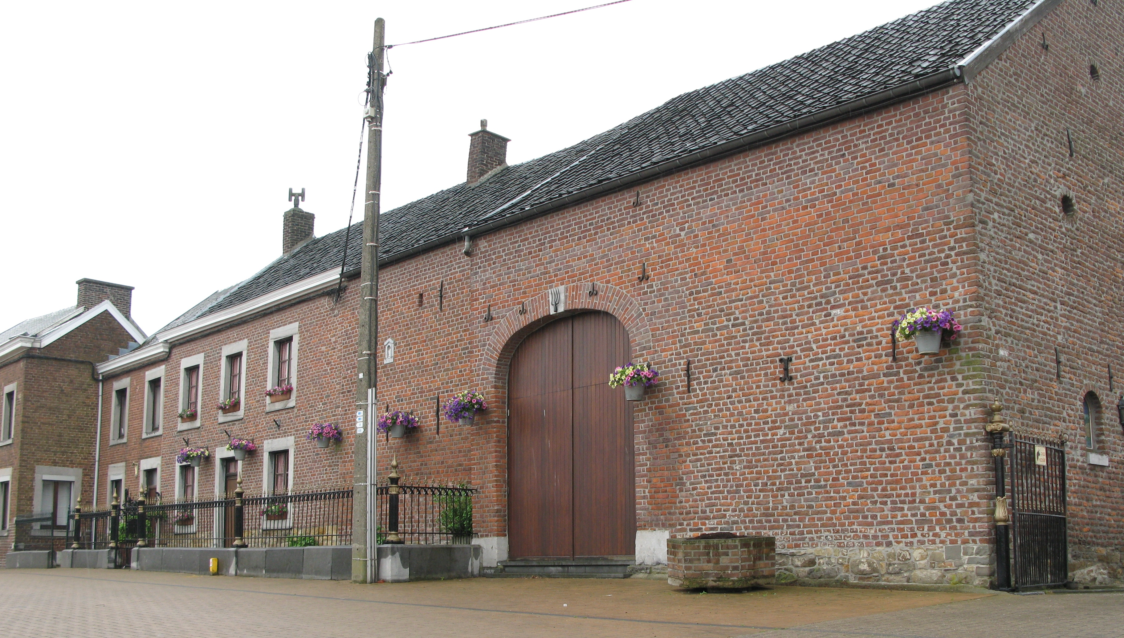 Blegny (Mortier), Belgium: Fork Museum